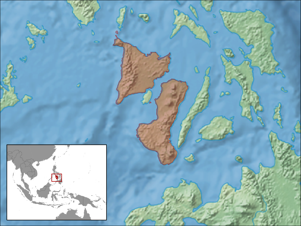 geographic distribution of Brachymeles tridactylus